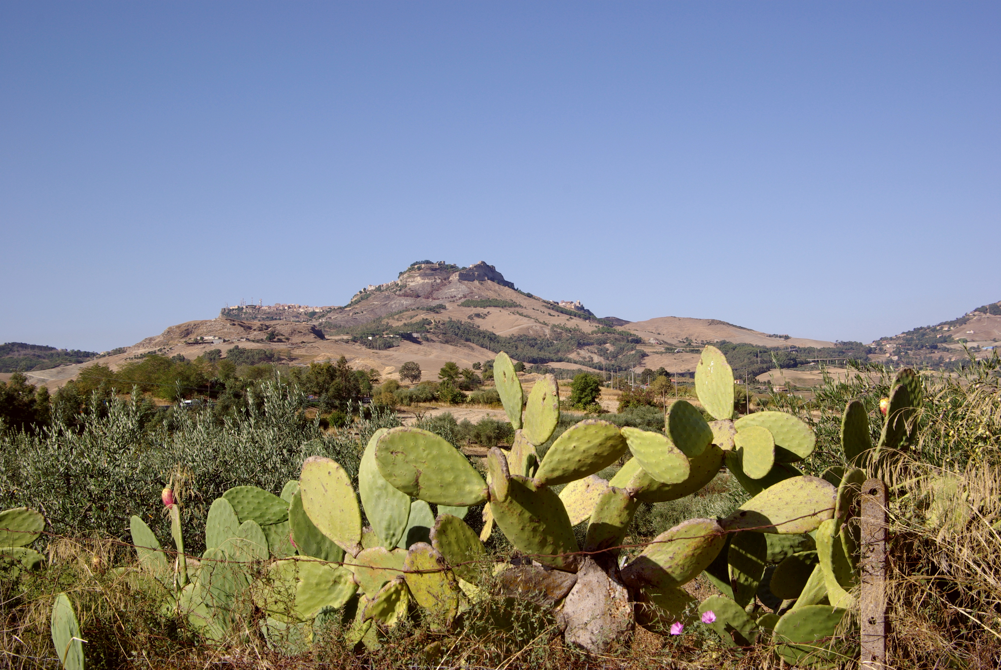 Italy, Sicily, landscape at the A19 near Enna